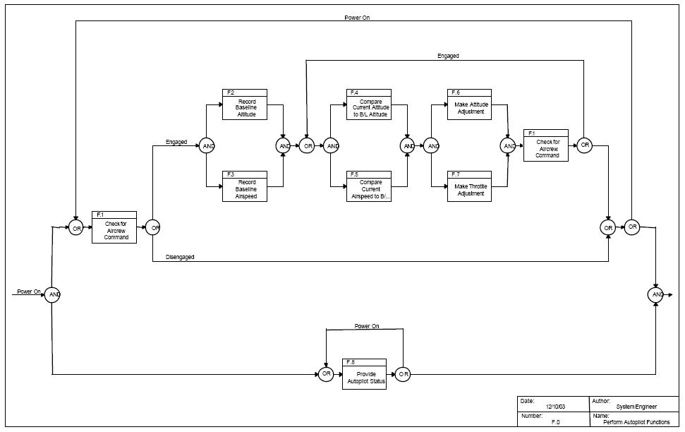 18. Autopilot Example FFBD